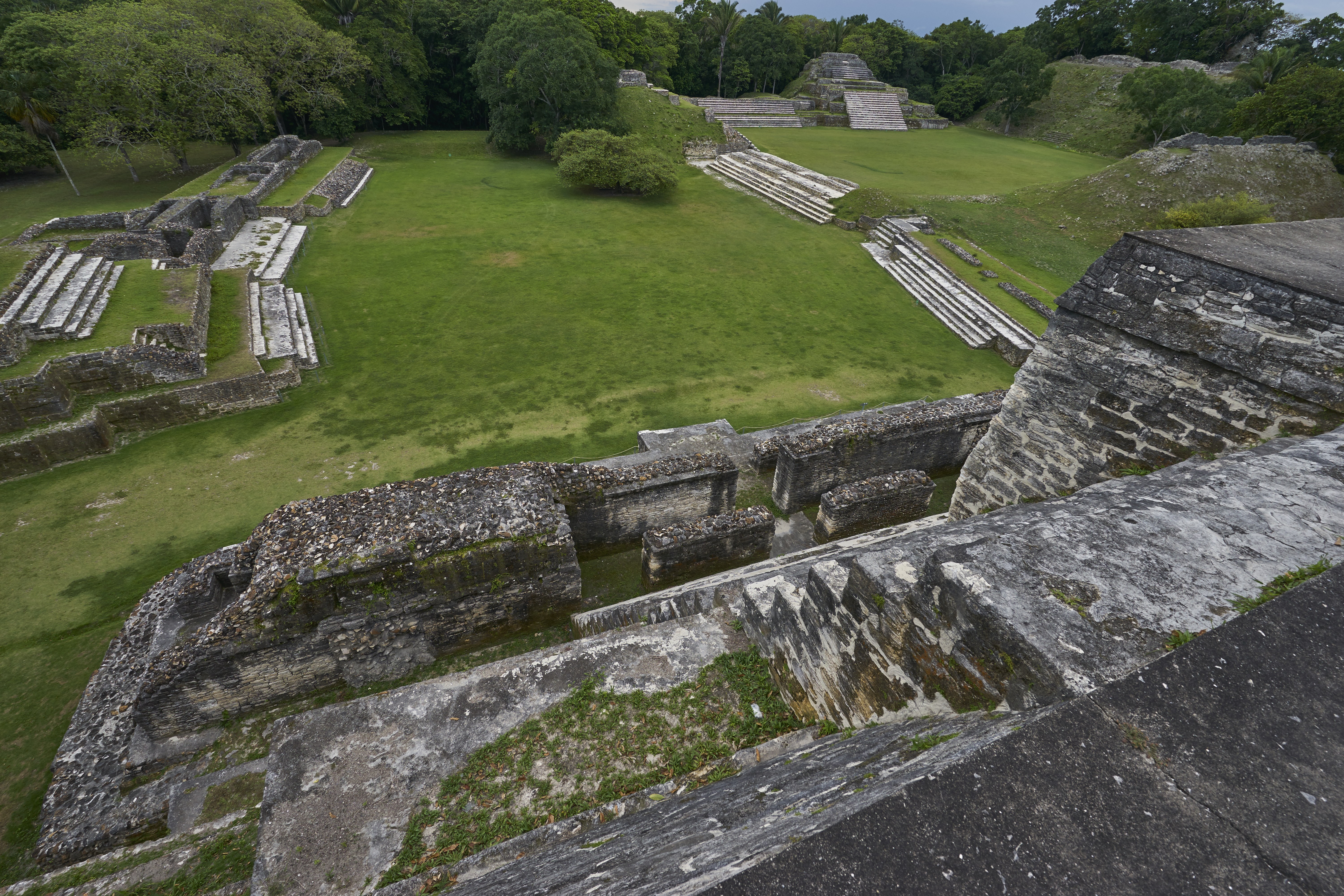 Overview from the top of Structure B4 (Temple of the Sun God/Temple of the masonry altars) onto Plaza B (foreground) and Plaza A (background) at Altun Ha archeological site, Belize The making of this document was supported by the Community-Budget of Wikimedia Germany.